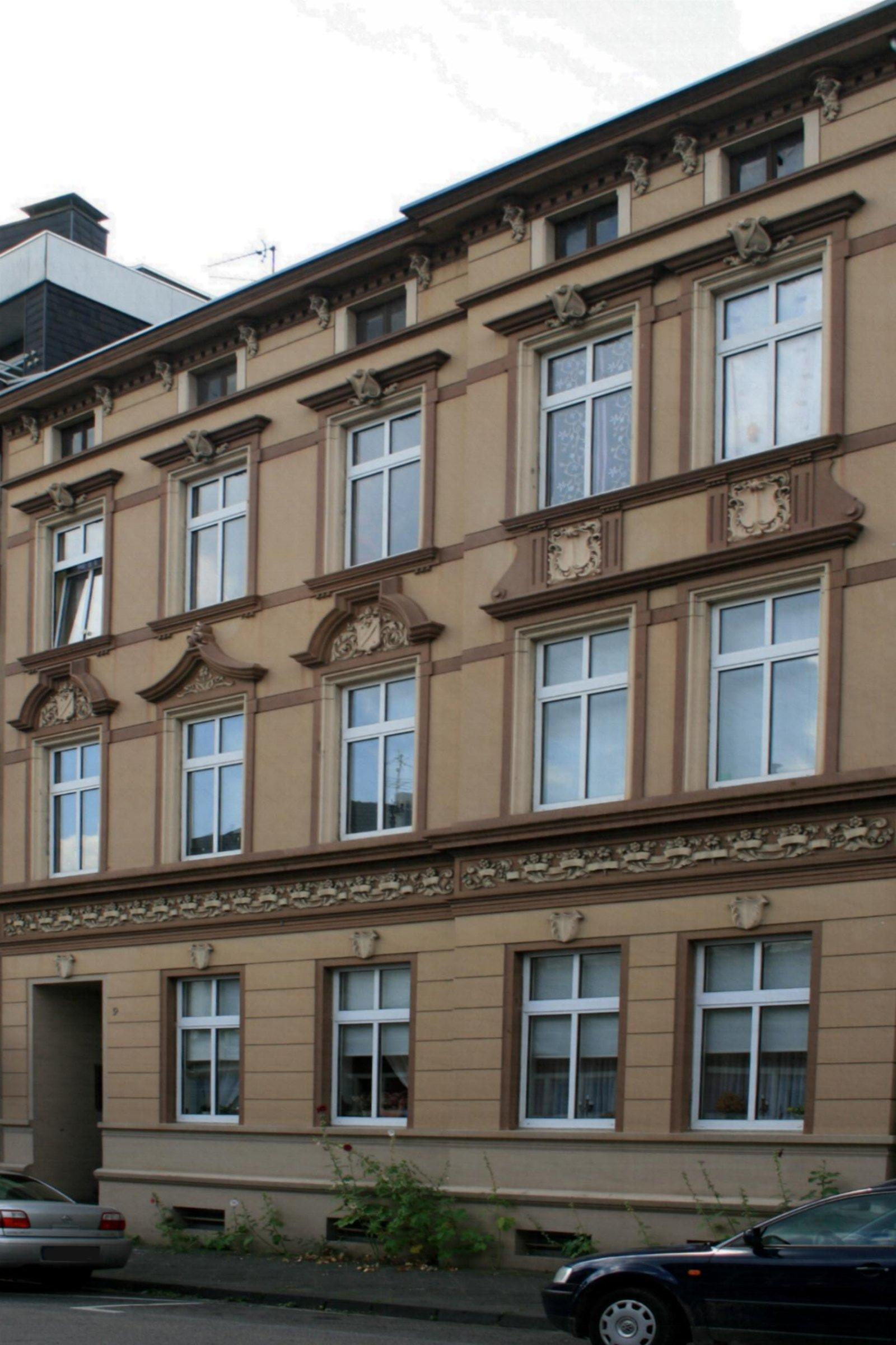 Cultural heritage monument No. Sch 002 in Mönchengladbach